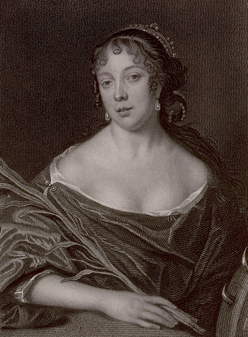 1825 print of a seventeenth-century portrait